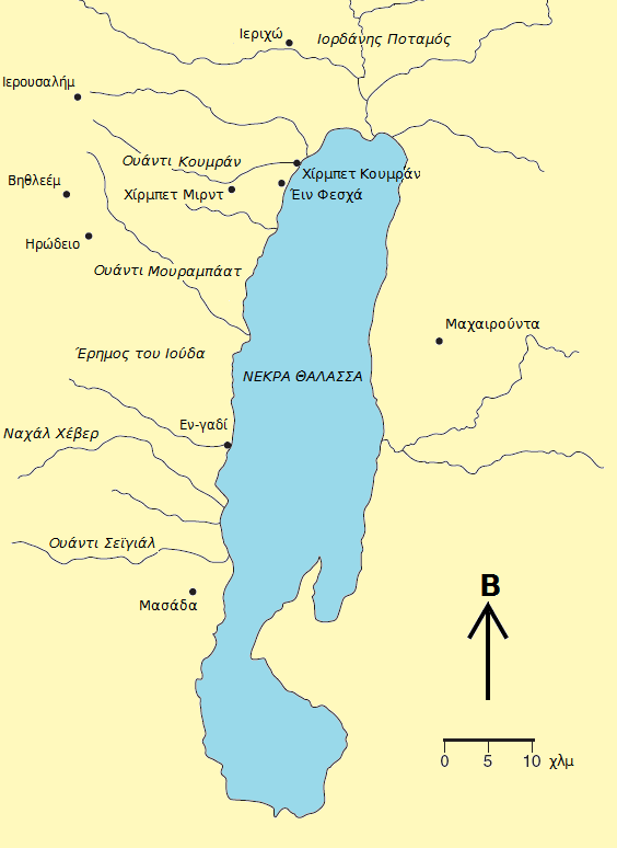 Map of the Dead Sea and the surrounding areas in Greek